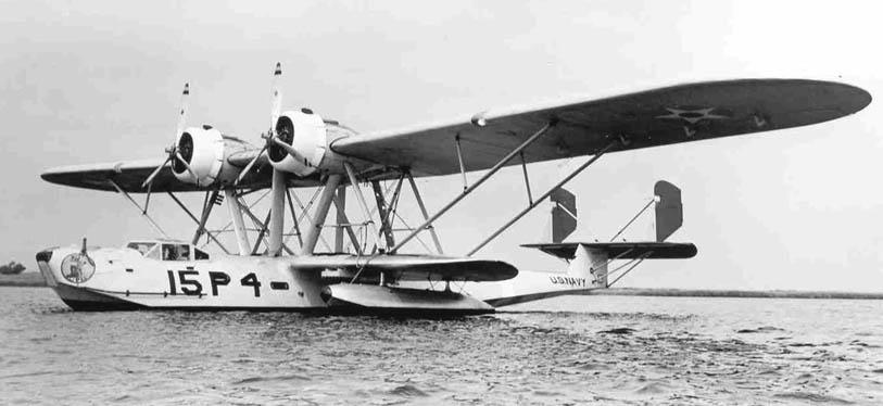 Consolidated P2Y-2 VP-15